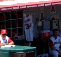 The uniform of former Los Angeles Angels' starting pitcher Nick Adenhart hanging in the Angels' dugout during a home game to commemorate the memory of the pitcher's recent tragic death. This photograph was taken with an Olympus E-510 DSLR camera and edited (for color balance, contrast and cropping) using ArcSoft Photostudio 5.5